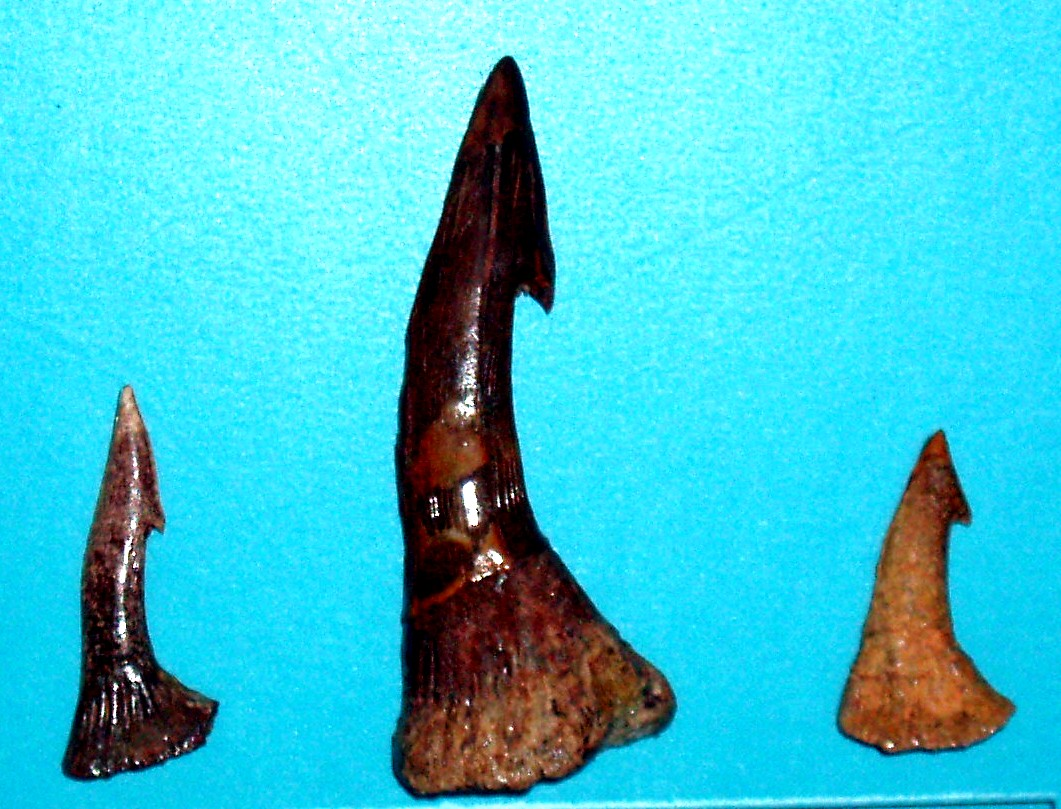 Fossil teeth of Onchopristis numidus, an extinct sawfish.